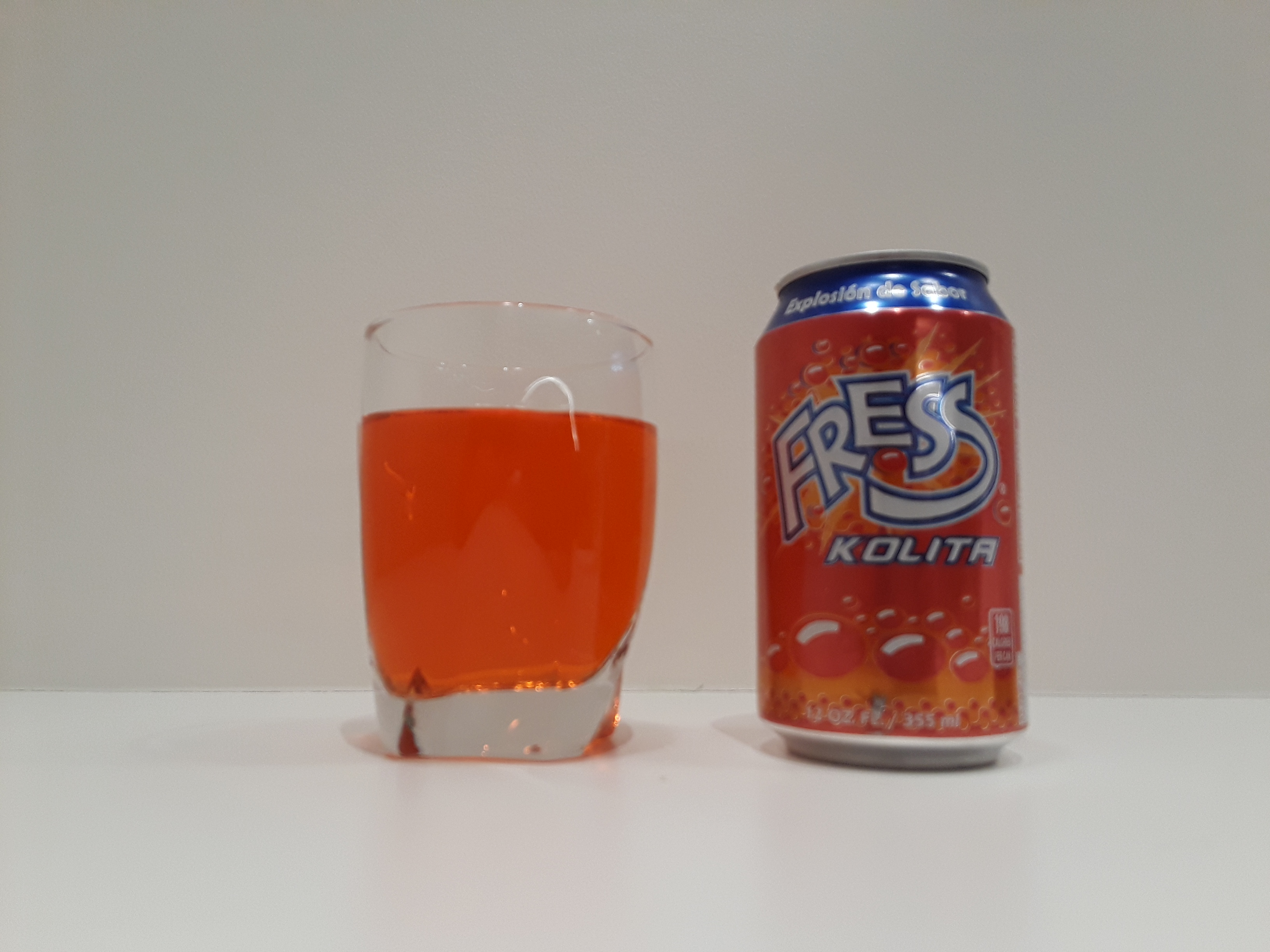 Can of Frescolita with some in a glass